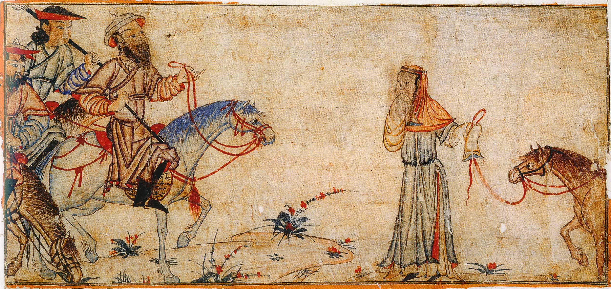 A woman complaining to the ruler. Illustration of Rashid-ad-Din's Gami' at-tawarih. Tabriz (?), 1st quarter of 14th century. Water colours on paper. Original size: 11.8 cm x 25.8 cm. Staatsbibliothek Berlin, Orientabteilung, Diez A fol. 70, p. 18 no.2. This illustrates a story about Ghazan Khan. Because Ghazan had officials and military stay in the houses of the general population, an old man told Ghazan a story about a Sultan: near Nishapur, this sultan met a newlywed woman that led a horse to drink. This task had actually been given to her husband by a Turk soldier, who wanted the husband out of the house. The Sultan consequently had separate baracks built for his men. And so did Ghazan.